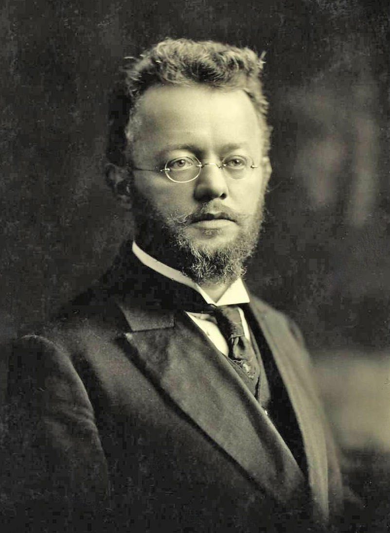 Picture of David Neumark